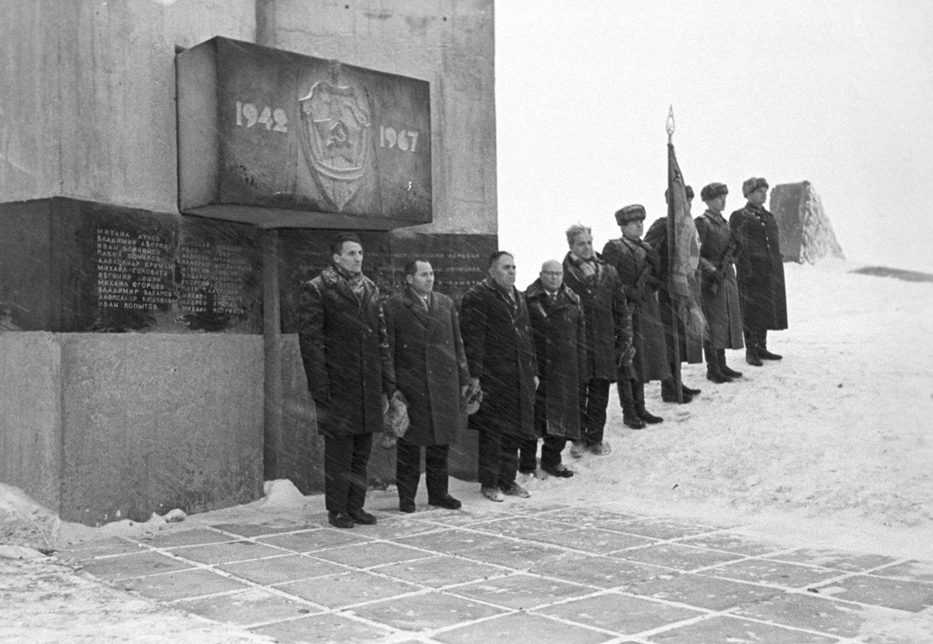 “Obelisk to 27 NKVD officers at village of Khludnevo”. The obelisk to 27 NKVD officers (under the command Kirill Laznyuk), who stopped the offensive of four hundred Nazi soldiers at the village of Khludnevo, Kaluga region, on January 23, 1942 (The Great Patriotic War of 1941-1945). Among the survivors were K. Laznyuk, A. Kruglyakov, E. Anufriev, and I. Korolkov